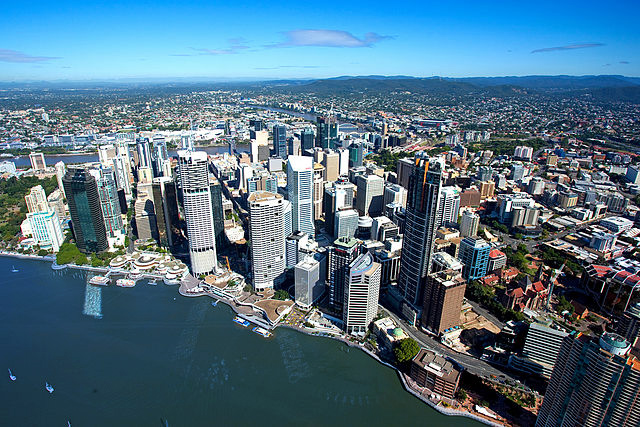 Aerial view of the Brisbane CBD